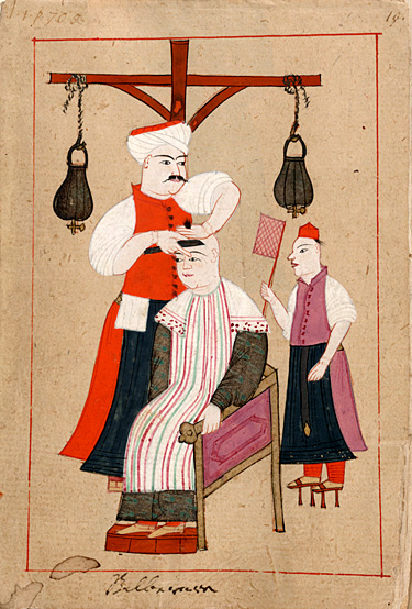 Pictures from the Ralamb Costume Book, 1657